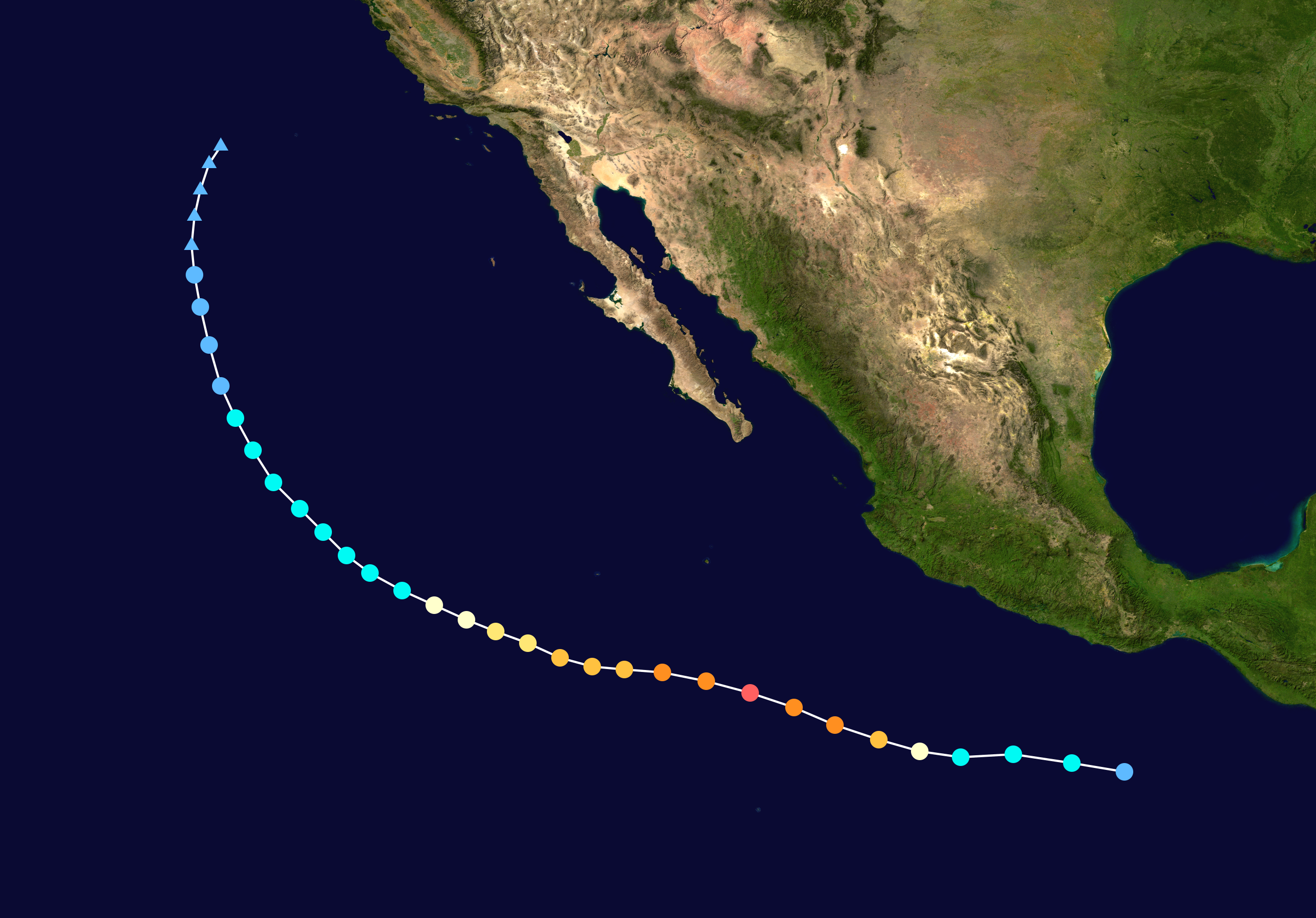 Hurricane Elida (2002) track. Uses the color scheme from the Saffir-Simpson Hurricane Scale.